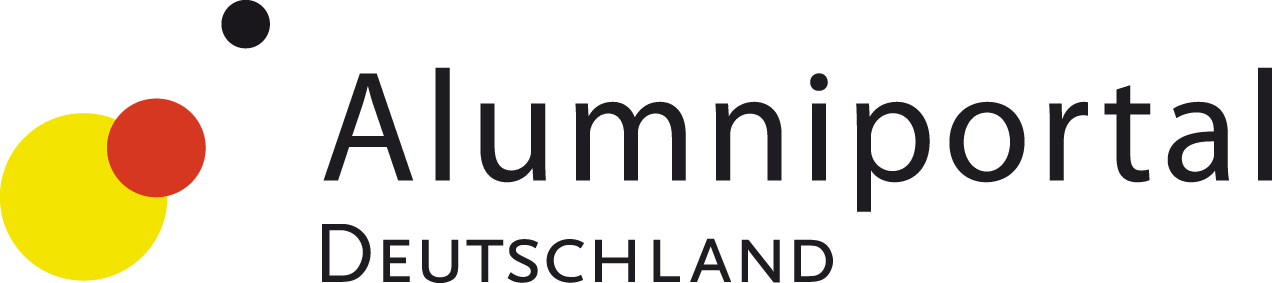 Logo of the Alumniportal Deutschland